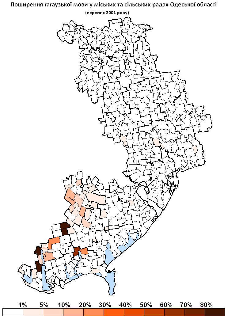 Percentage of gagauz native speakers in Odesa oblast according to 2001 census